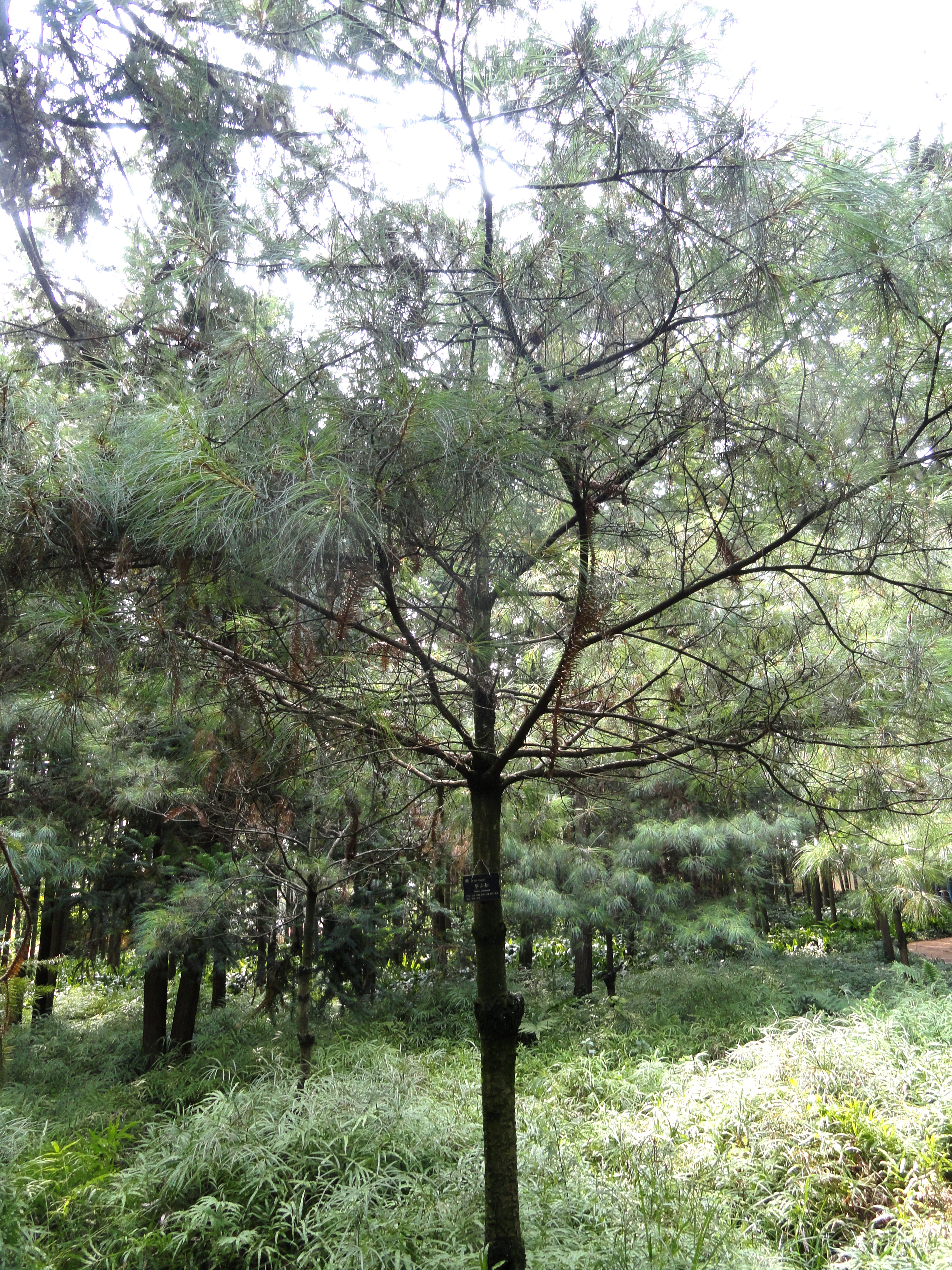 Plant specimen in the Kunming Botanical Garden, Kunming, Yunnan, China.